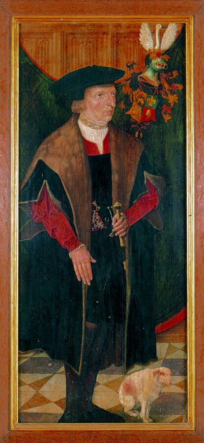 oil painting of Keimpe van Martena